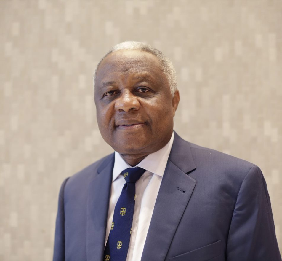 Professor Tumani Corrah CBE MRG at the launch of Africa Research Excellence Fund September 2015